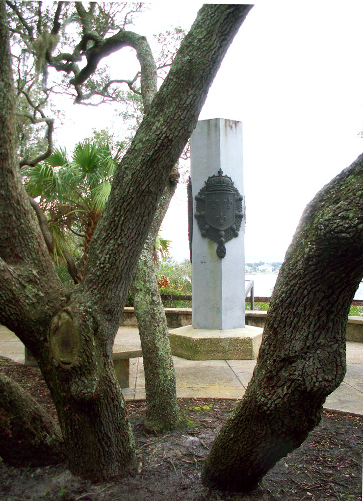 Reconstruction of the monument placed at St. Johns River at Ft. Caroline by French settlers in 1564, on display at Ft. Caroline National Monument